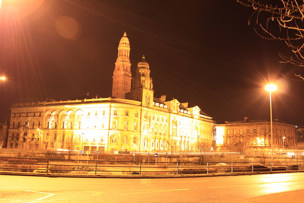 Greenock Town hall